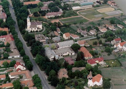 Kenderes, Hungary, aerialphotography